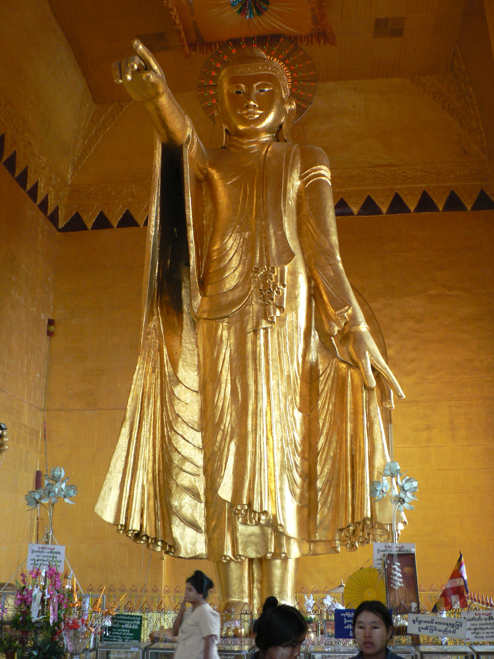 standing Buddha statue on top of Mandalay Hill, Mandalay